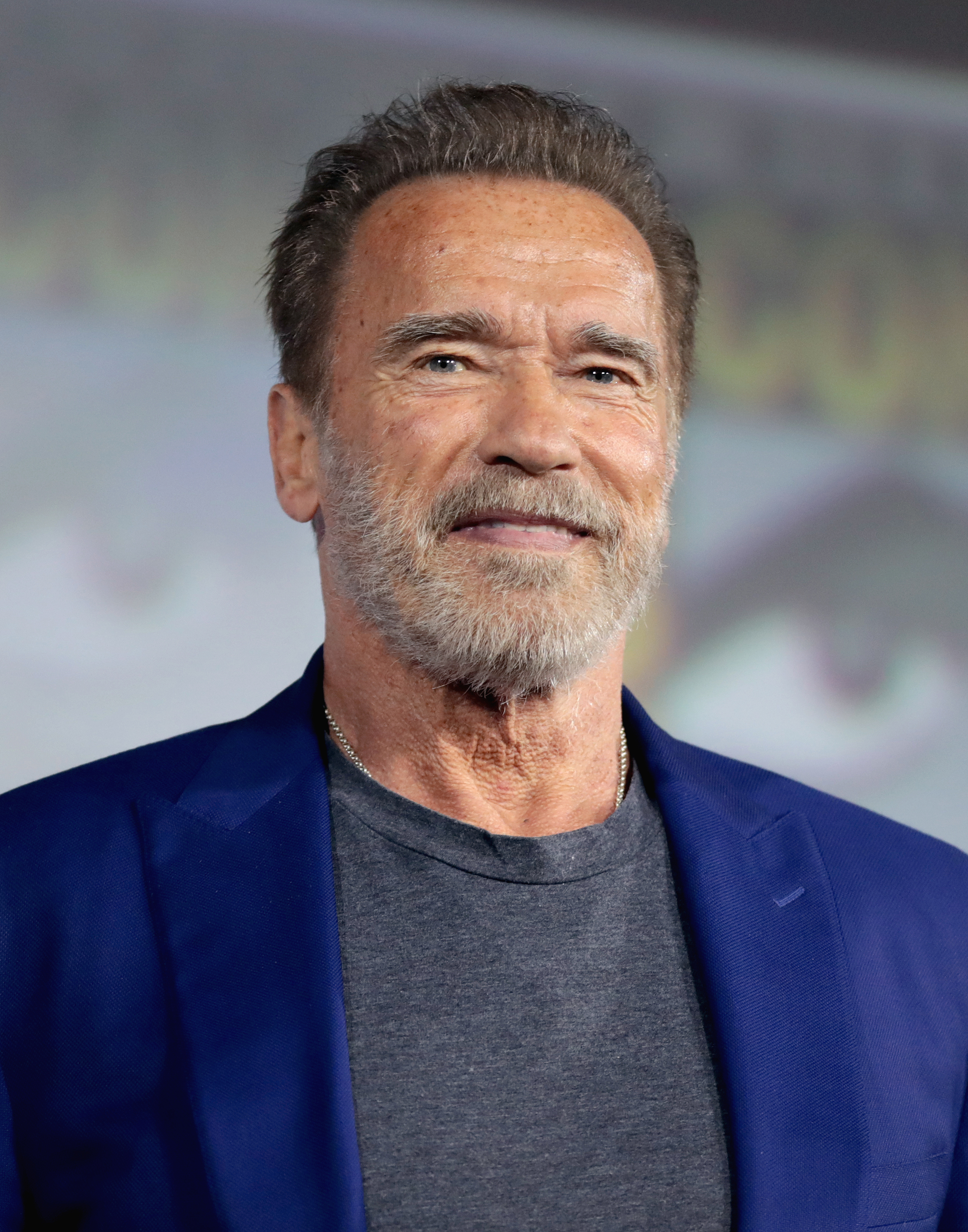 Arnold Schwarzenegger speaking at the 2019 San Diego Comic-Con International in San Diego, California.